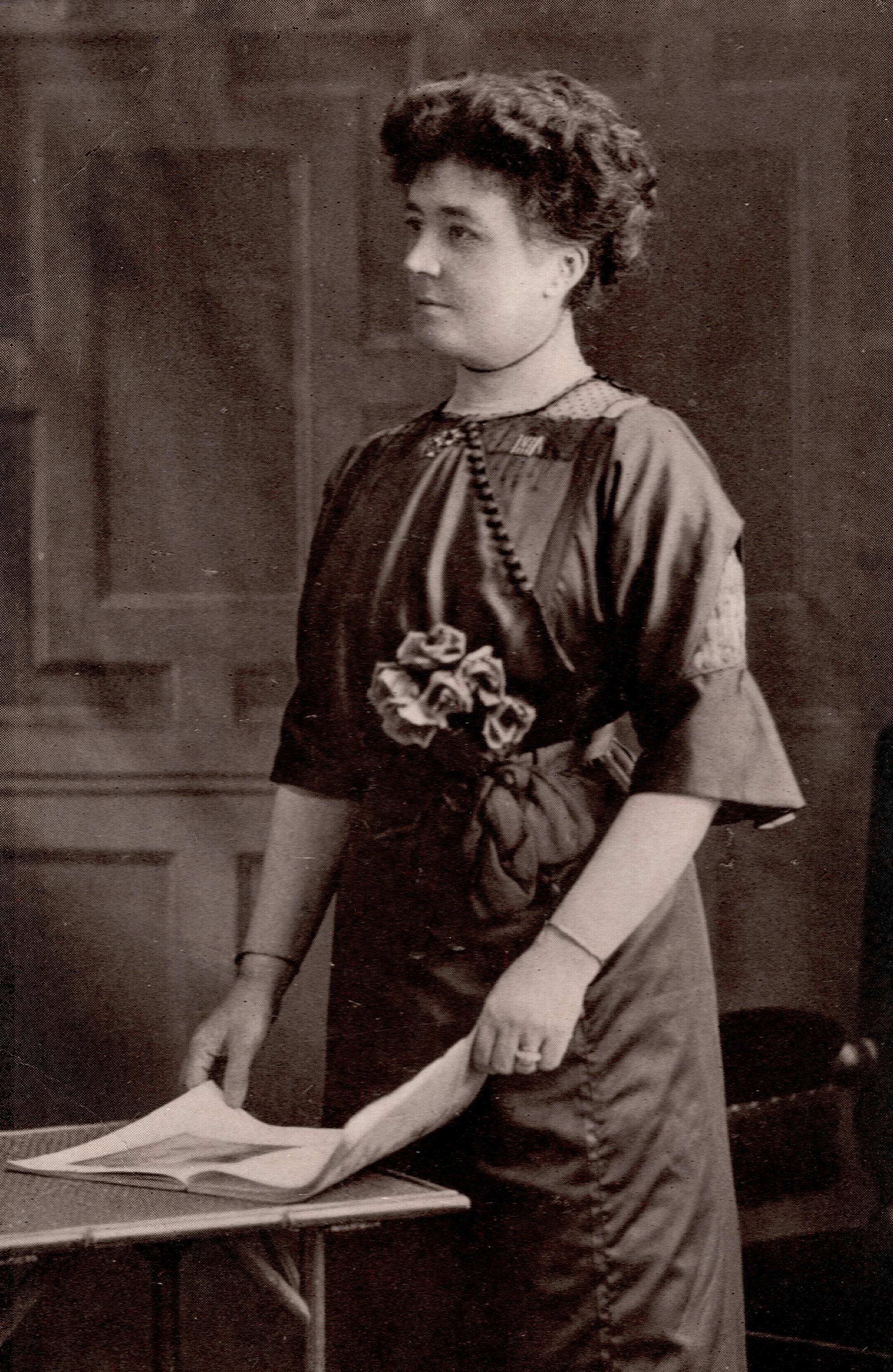 Edith Mansell Moullin WSPU. guess date as 1909